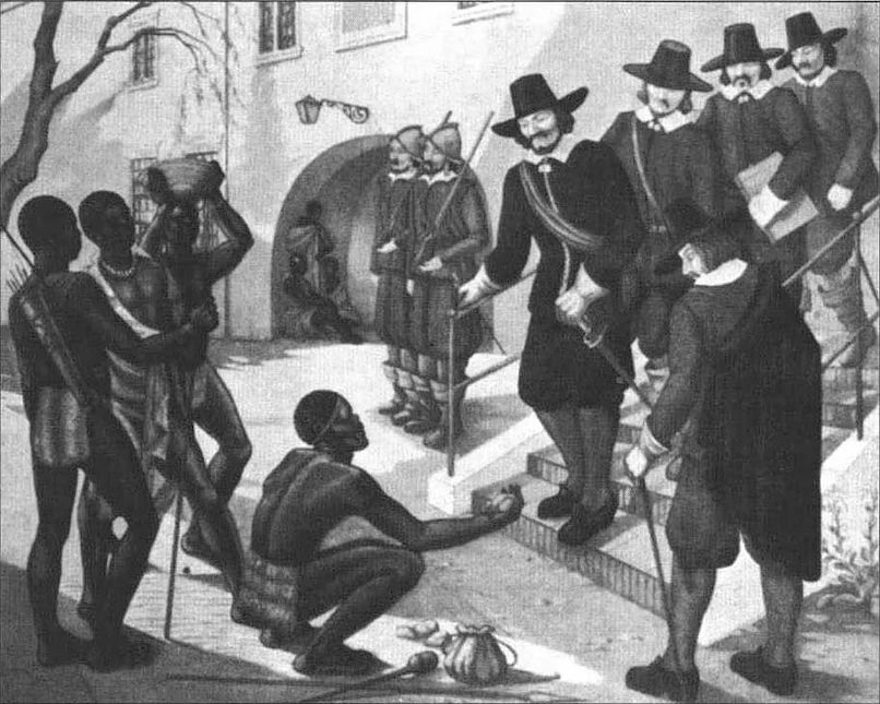 "Undated anonymous mural in South Africa House, London, depicting Nama people presenting green copper-bearing rocks to the VOC at the Cape." Caption by Mike Hannis and Sian Sullivan.